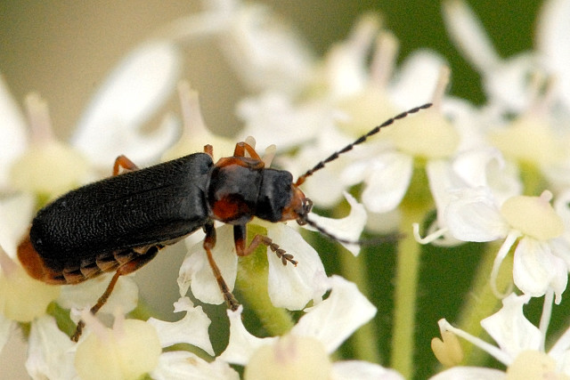 Rhagonycha atra from Commanster, Belgian High Ardennes .